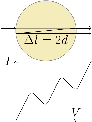 Diagram for Ramsauer Effect